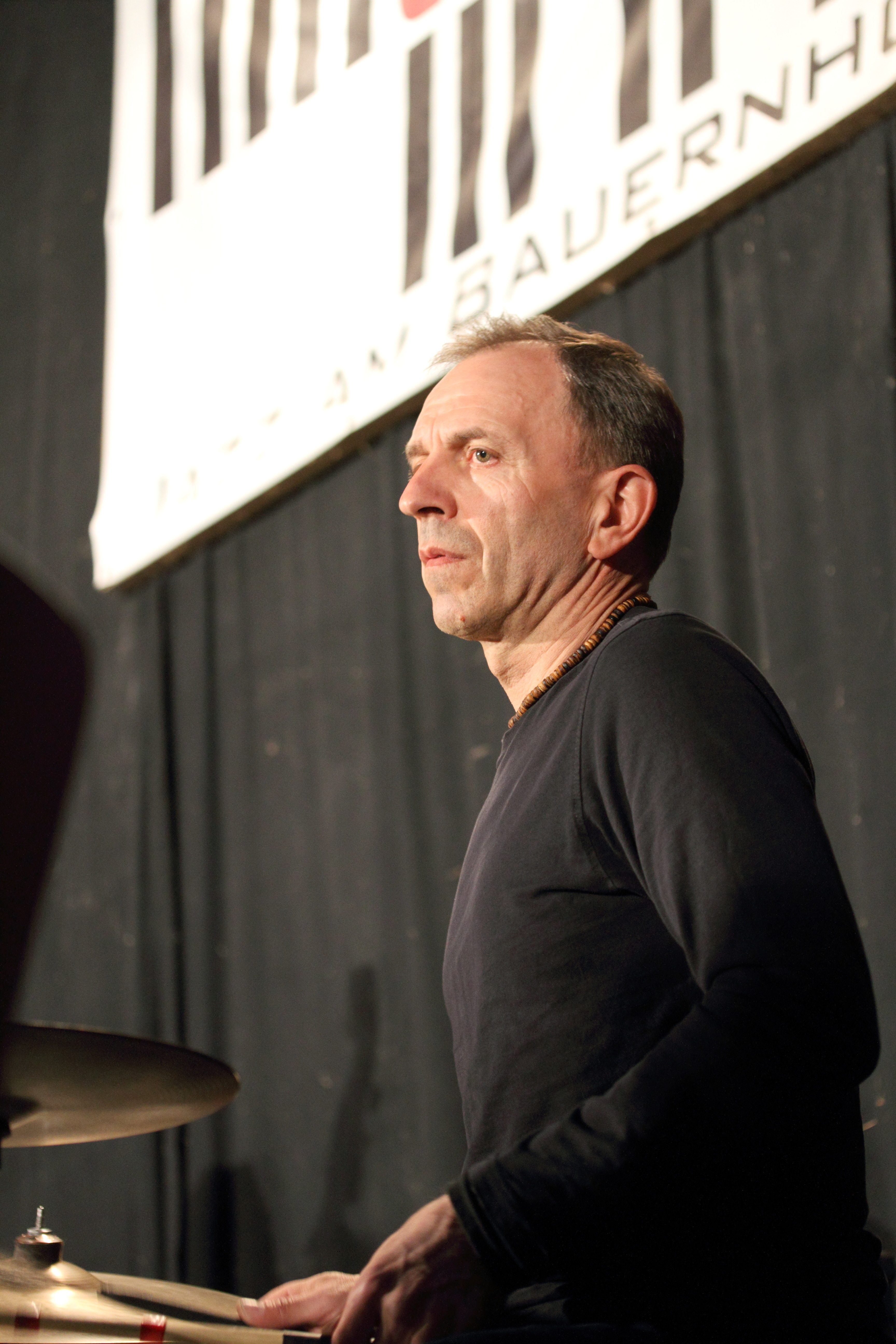 The AMC Trio from Slovakia at INNtöne Jazzfestival, Austria 2013.